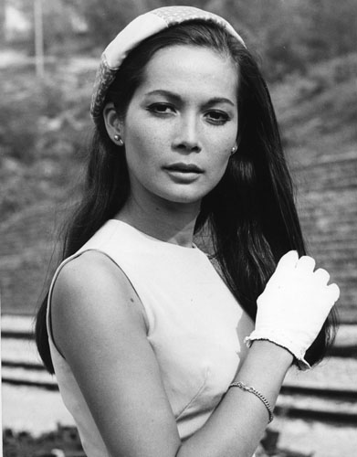 Nancy Kwan in the 1966 film Arrivederci, Baby! (also known as Drop Dead Darling.